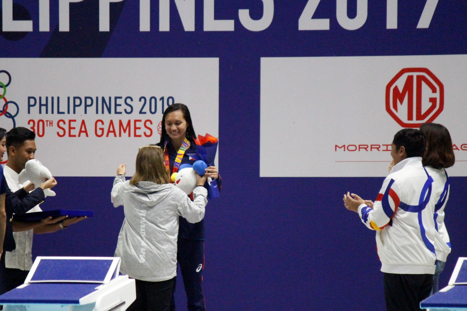 Remedy Alexis Rule of the Philippines wins the Bronze in the Women’s 200m Freestyle Swimming competition of the 30th South East Asian Games. (Gabriela Liana S. Barela/PIA 3)